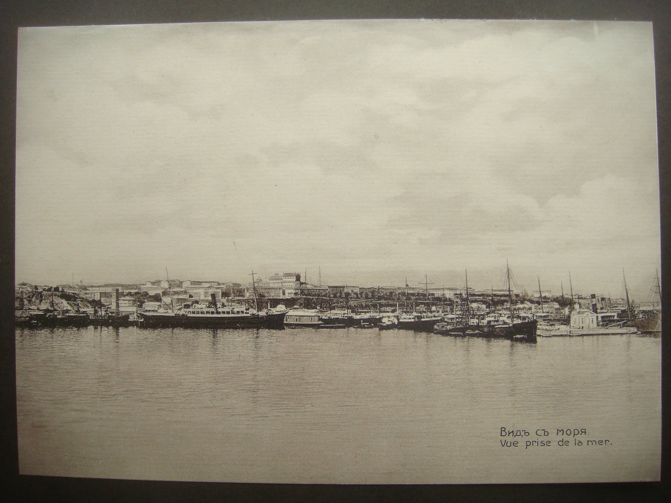 This is photo view of Odessa from Souvenir Photo Album published in Odessa circa early XX century.